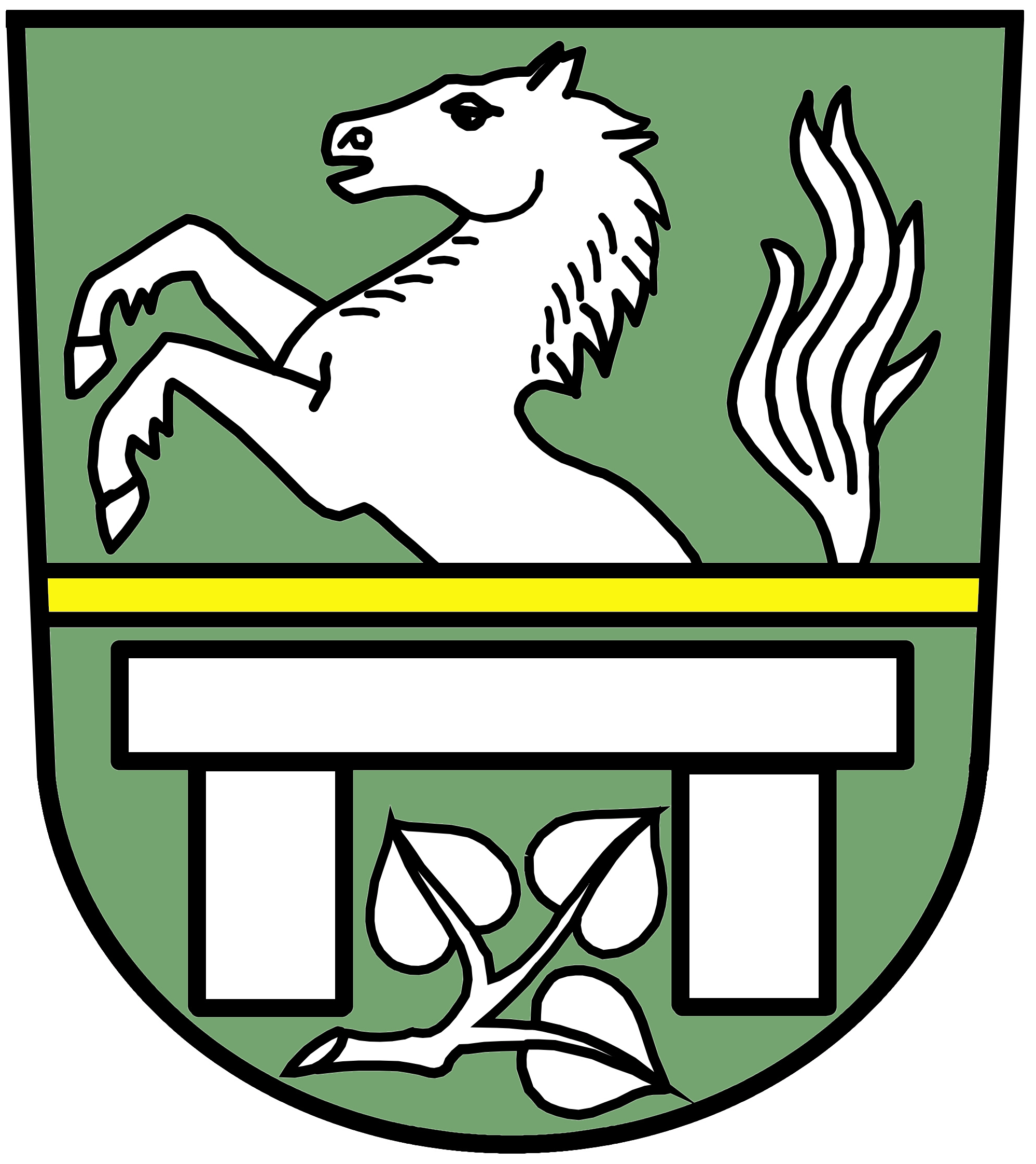 Coat of Arms of Dietzenrode-Vatterode